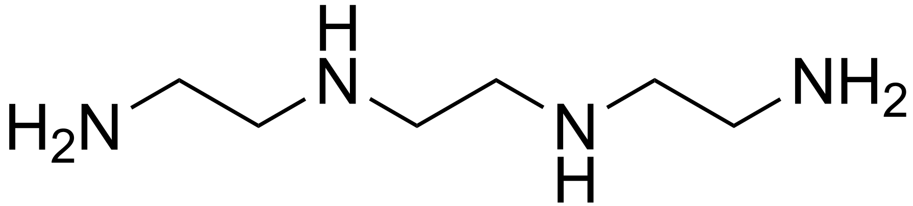 chemical structure of triethylamine tetramine